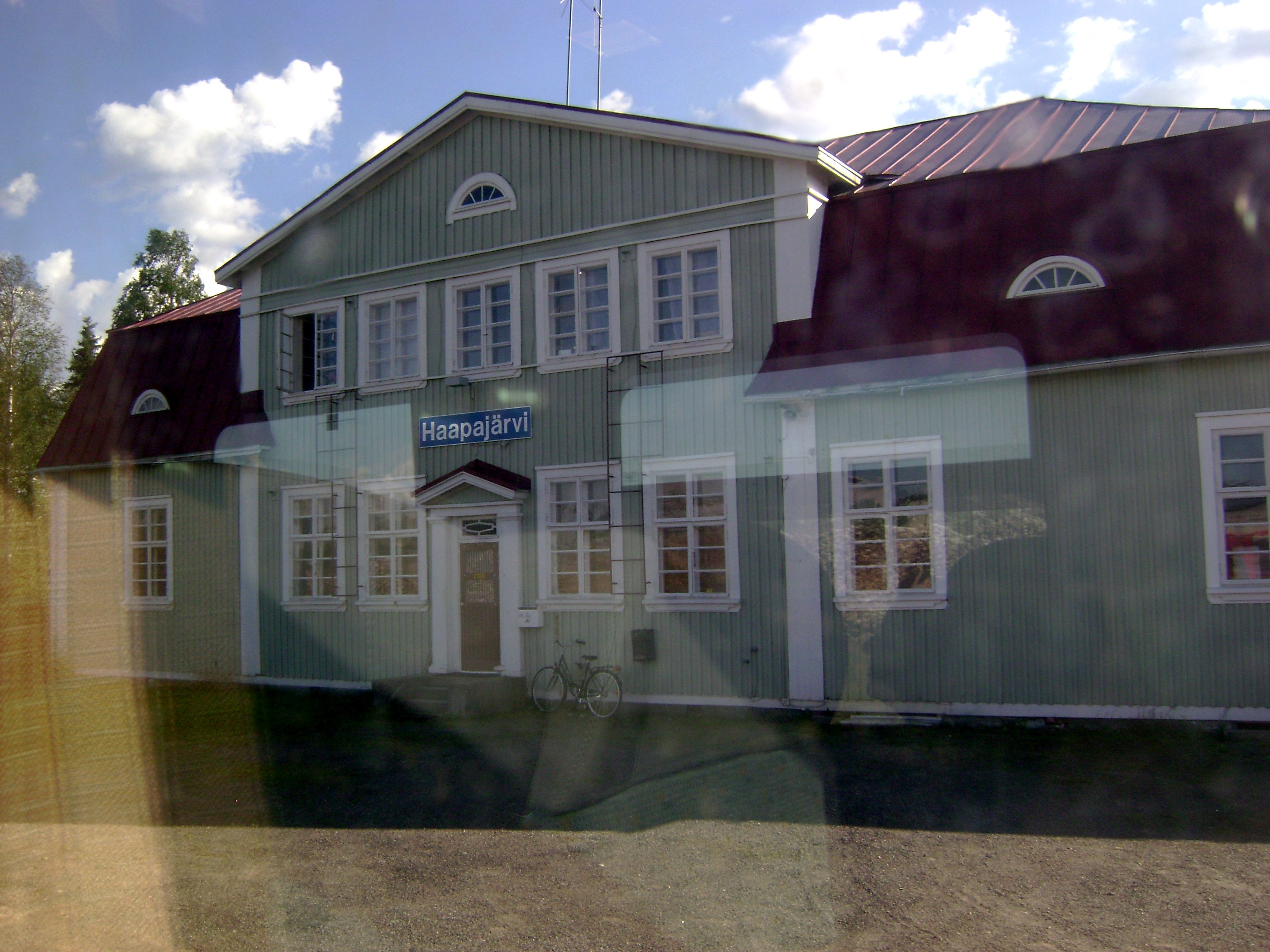 Haapajärvi railway station in Haapajärvi, Finland